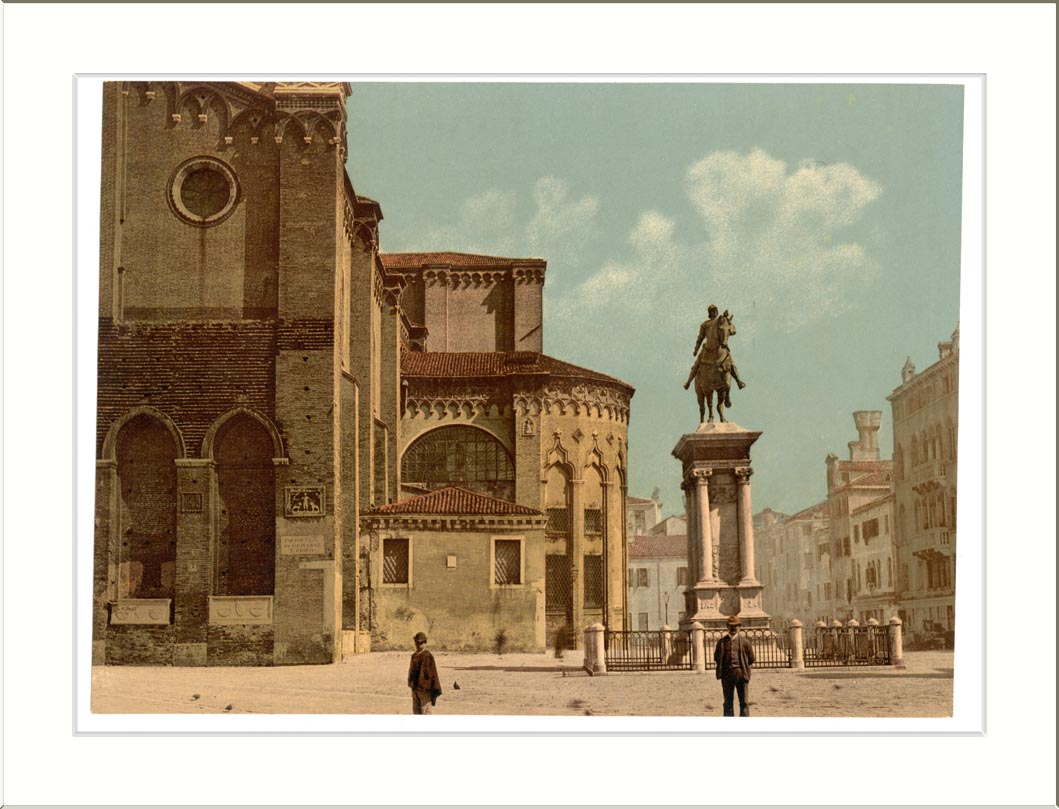 between ca. 1890 and ca. 1900. Print no. 1105. Views of architecture and other sites in Italy 1 photomechanical print : photochrom color. Library of Congress Prints and Photographs Division Washington D.C. 20540 USA Santi Giovanni e Páolo church and statue of Bartolomeo Colleoni Venice Italy between ca. 1890 and ca. 1900. Print no. 1105. Views of architecture and other sites in Italy 1 photomechanical print : photochrom color. Library of Congress Prints and Photographs Division Washington D.C. 20540 USA